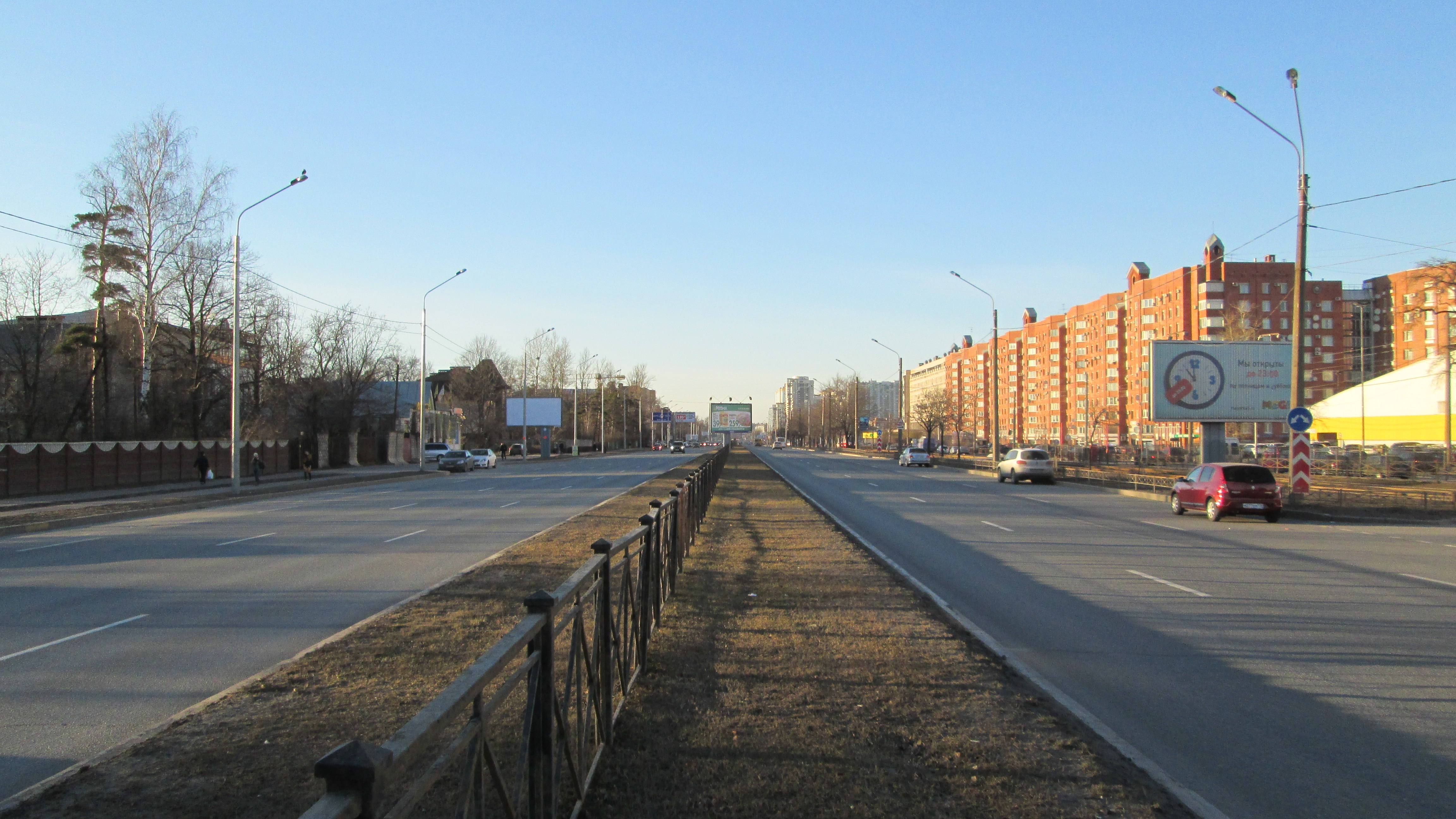 Vyborgskoe Shosse in Saint Petersburg